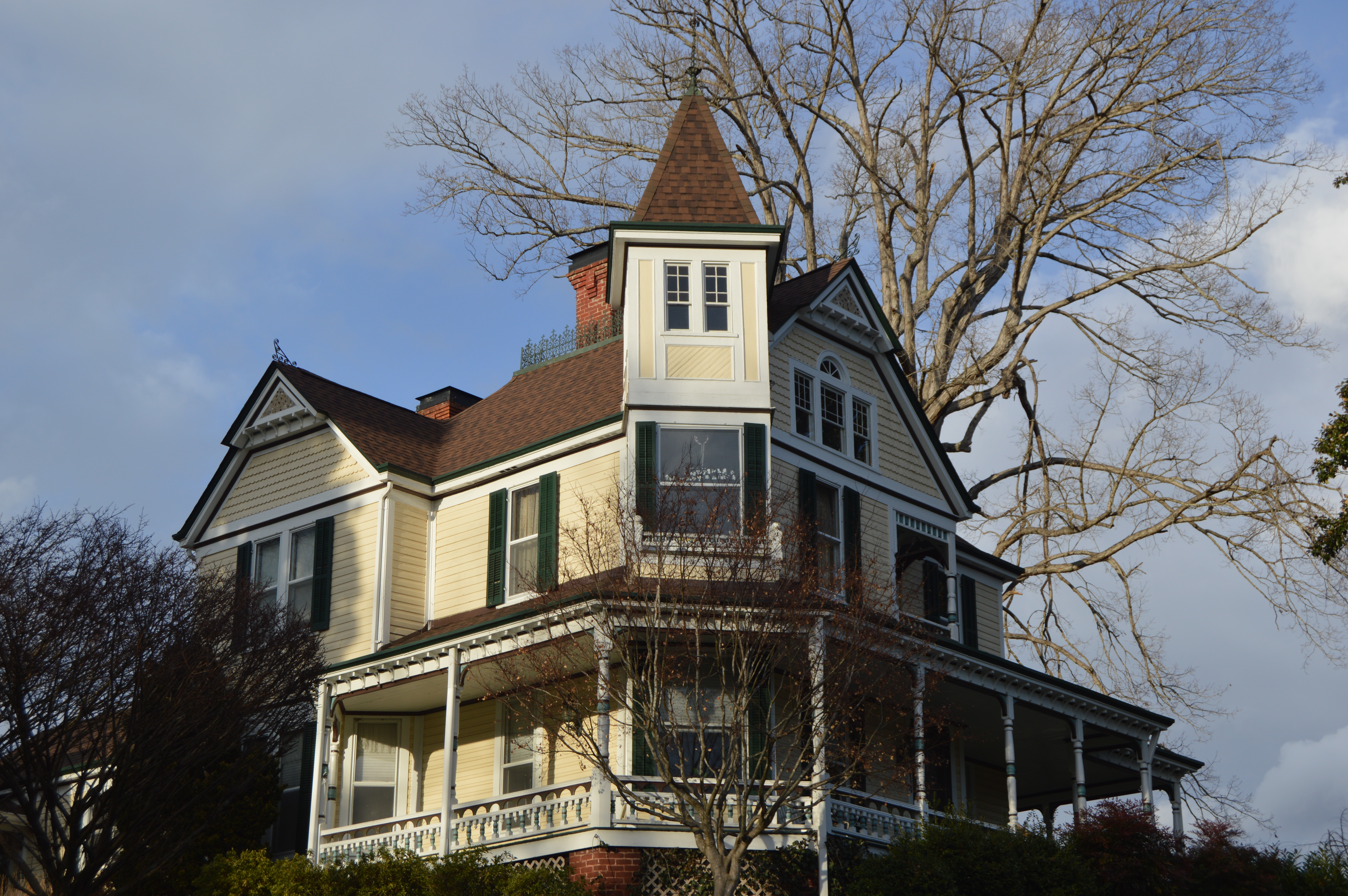 Southern and western sides of the Thomas B. Finley House, located at 1014 "E" Street in Wilkesboro, North Carolina, United States. Built in 1893, it is listed on the National Register of Historic Places.